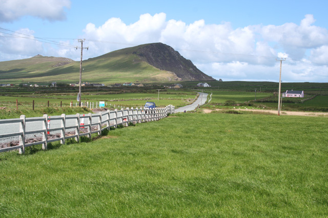 Pasture with a view towards Beenmore View towards Beenmore (Binn Bhaile Reo; centre) and Ballydavid Head (Ceann Bhaile Dhaith; left) from the crossroads on the Dingle Way (R549), showing the flat lush pasture inland north east of Feohanagh (An Fheothanach). The houses in the distance are at Ballycurrane (Baile Ui Chorraine; right) and Graffee (Na Grafai; centre left; in Q4111)